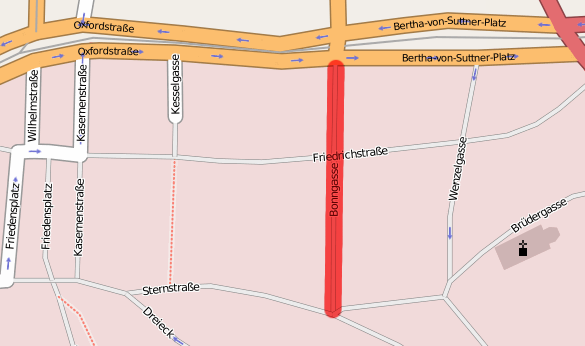 Map highlighting the Bonngasse in Bonn, Germany.